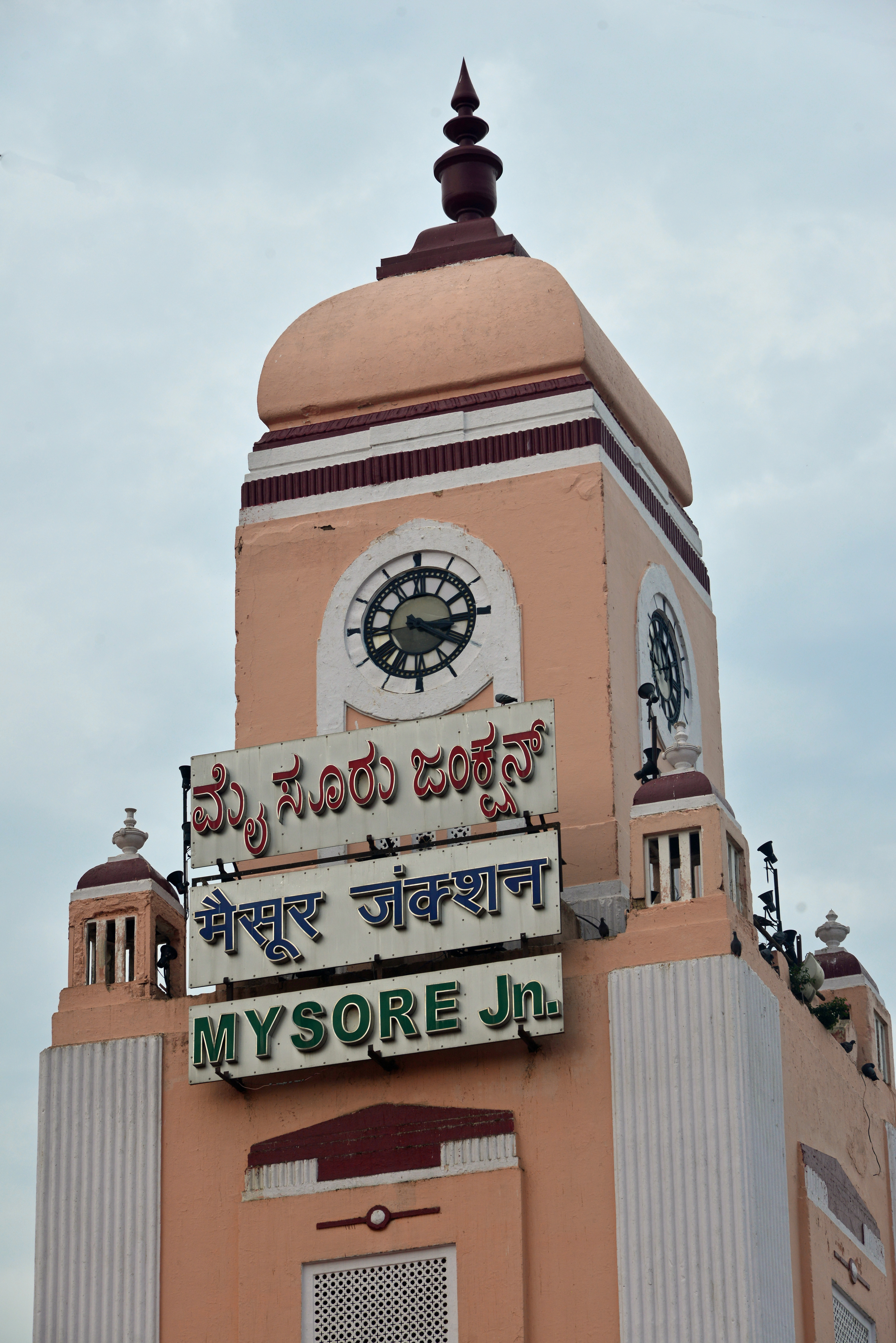 Mysore Junction railway station clock tower